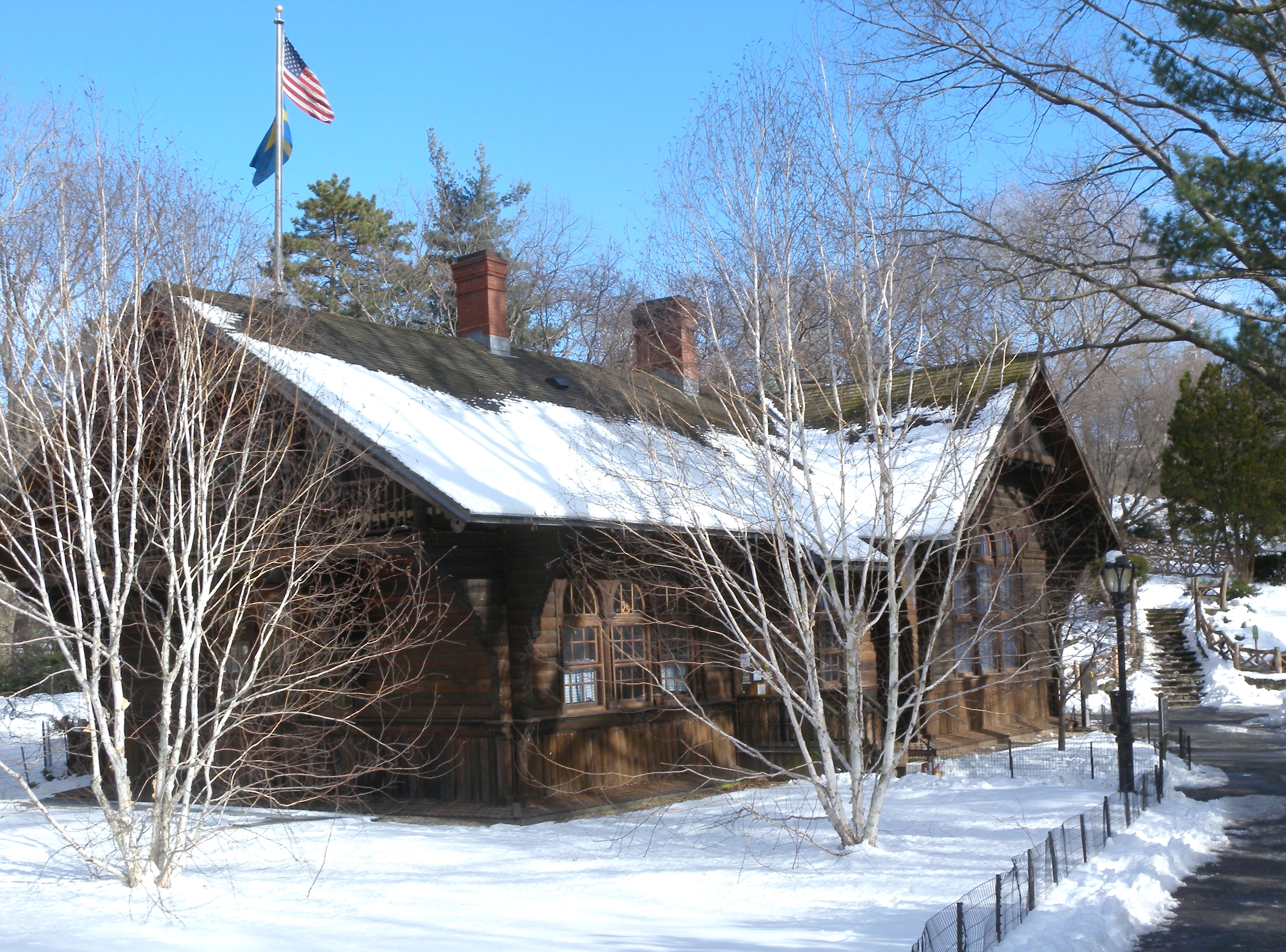 Looking east at Swedish Cottage on a sunny afternoon after snow.